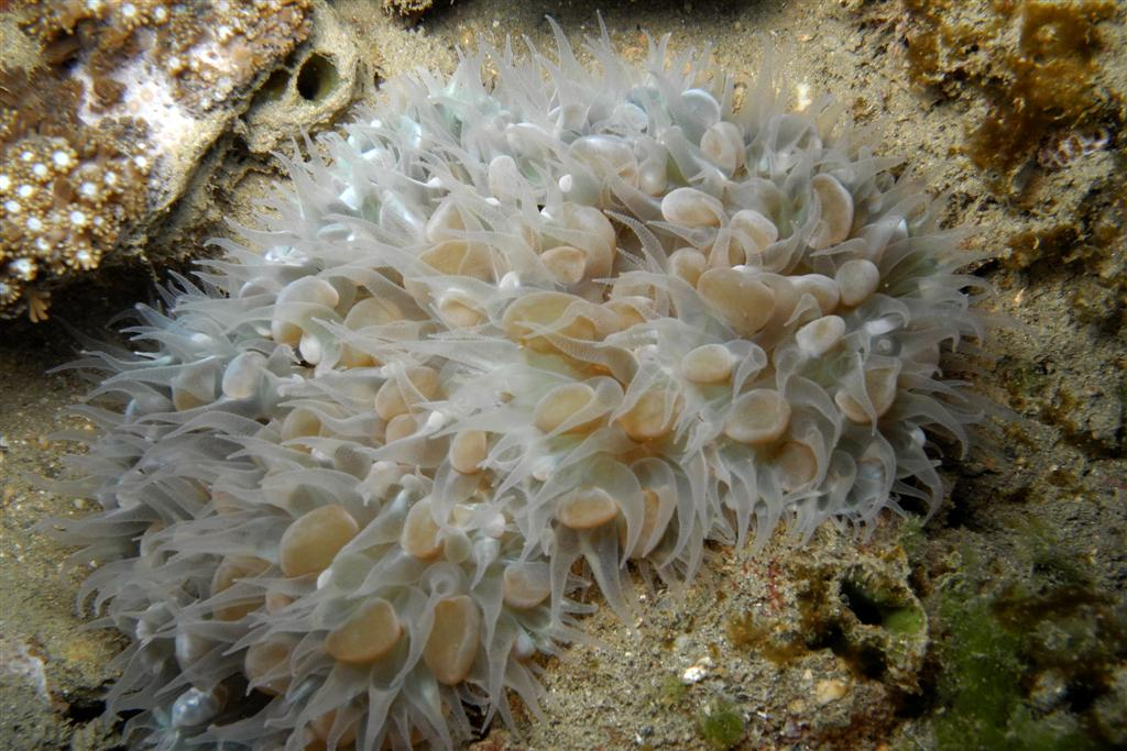 Anemone